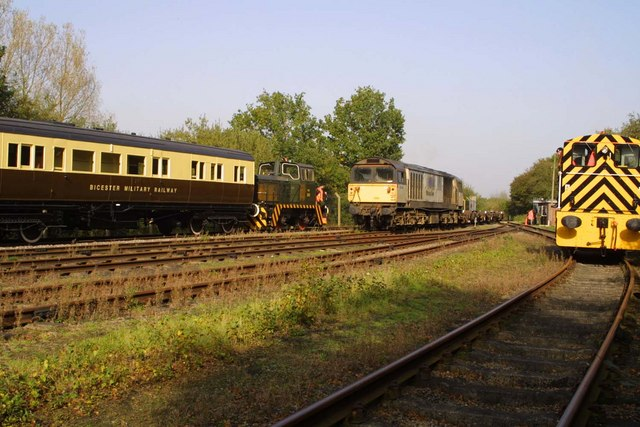 A train enters Bicester Military Railway